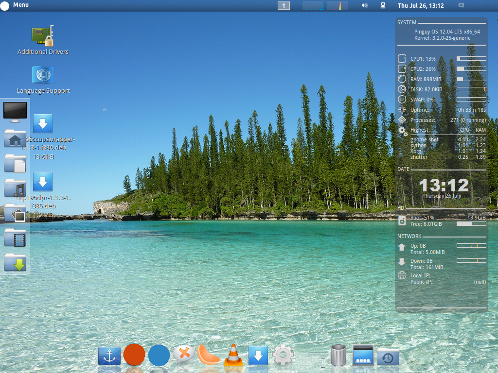 This is the Pinguy OS 12.04 LTS desktop on my own PC with a dock at the bottom (Docky) and on the right side Conky.